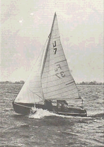 Coen (Conrad) Gulcher with Flying Junior Prototype sailing at Loosdrecht 1955